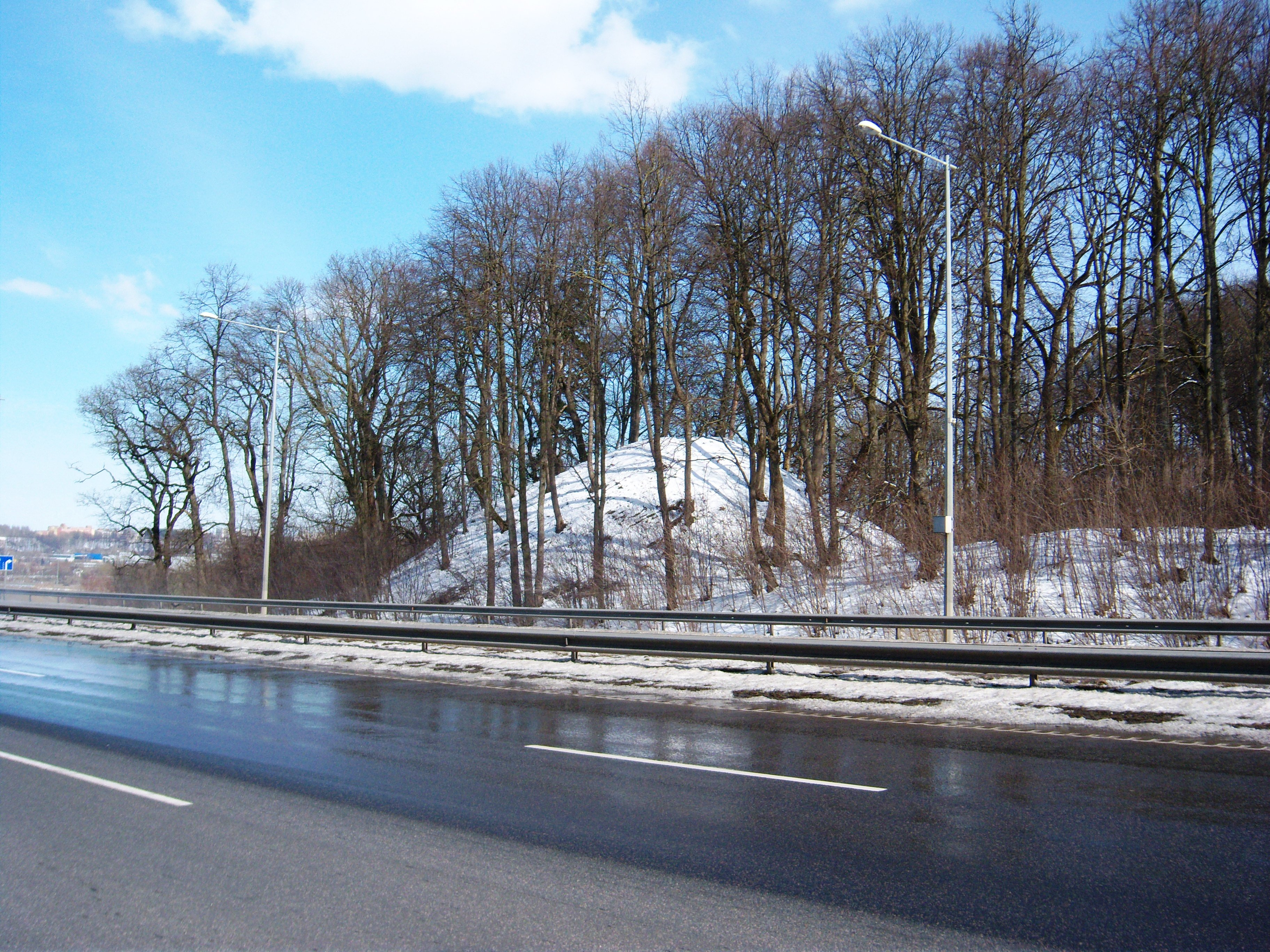 Marvelė hillfort, near Akademija, Kaunas, Lithuania